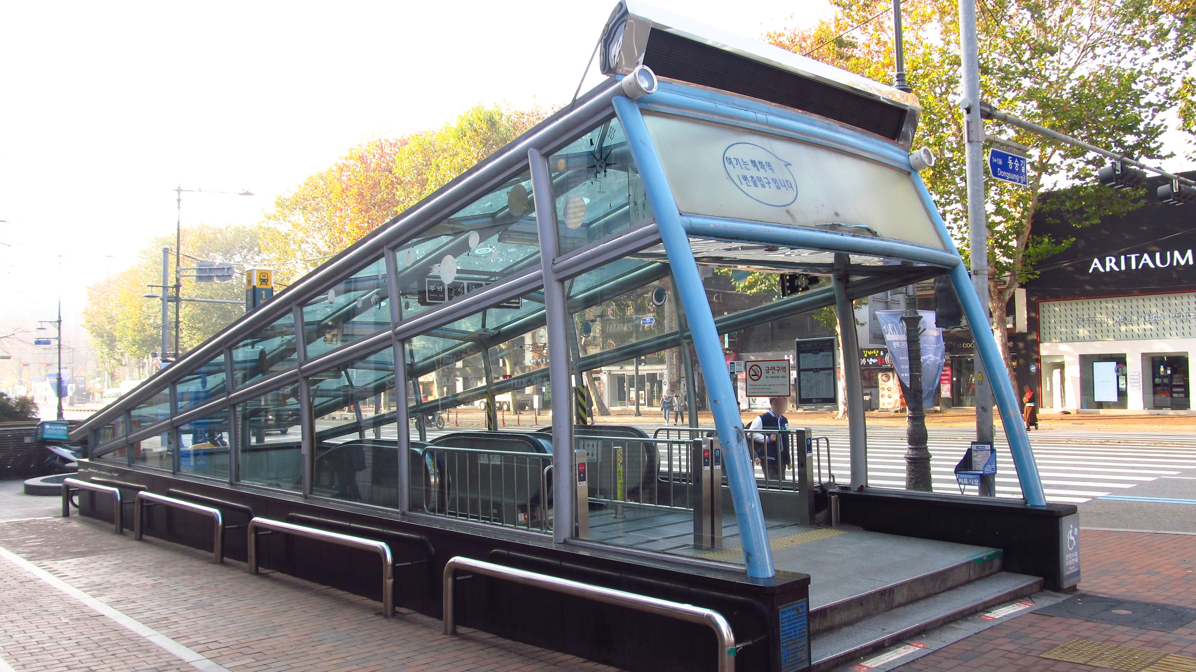 The no.1 entrance to Hyehwa Station on the Seoul Metro Line 4 in Jongno-gu, Seoul, Republic of Korea(South Korea)